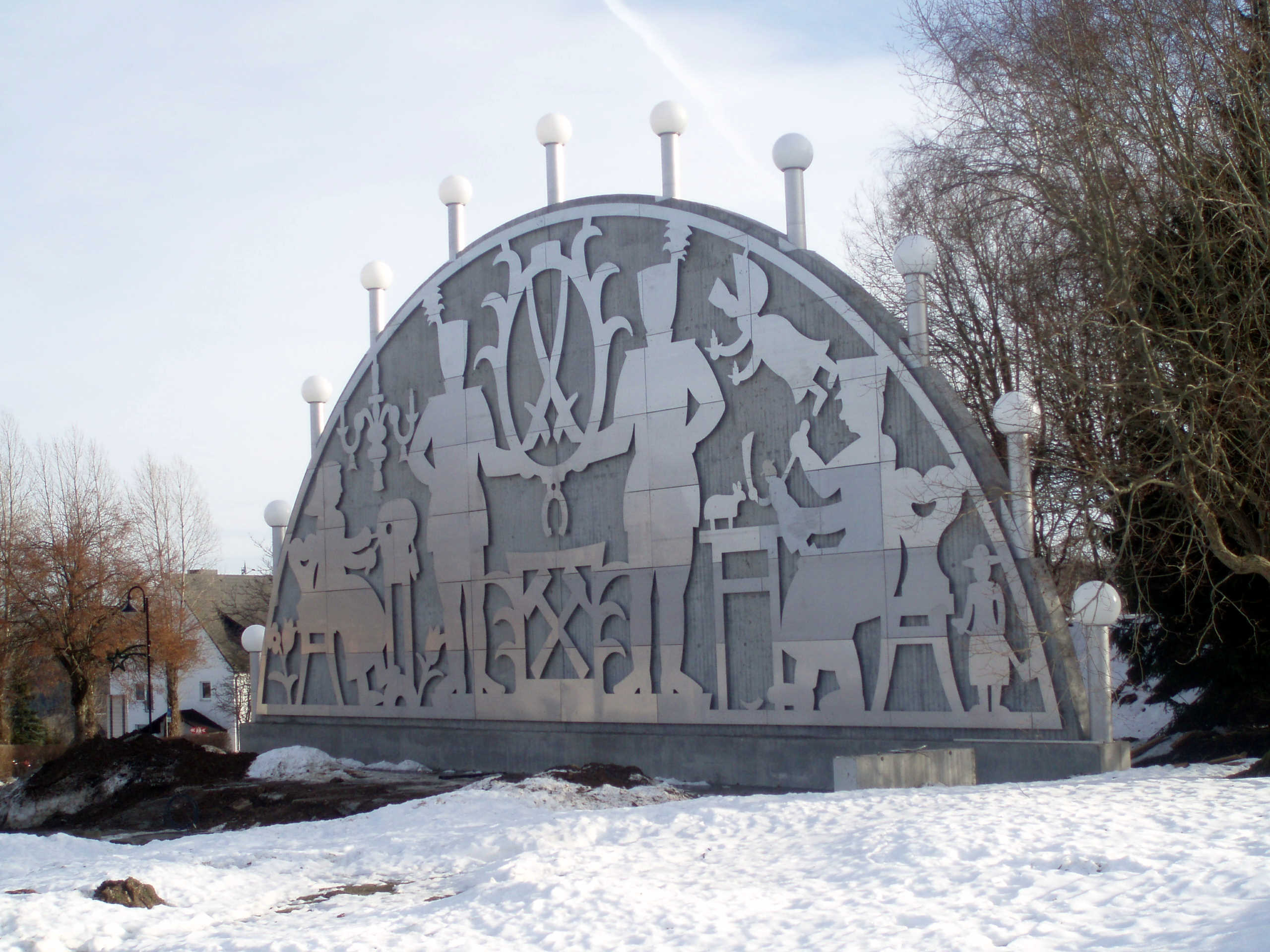 Giant "Schwibbogen". City of Johanngeorgenstadt, Saxony, Germany.